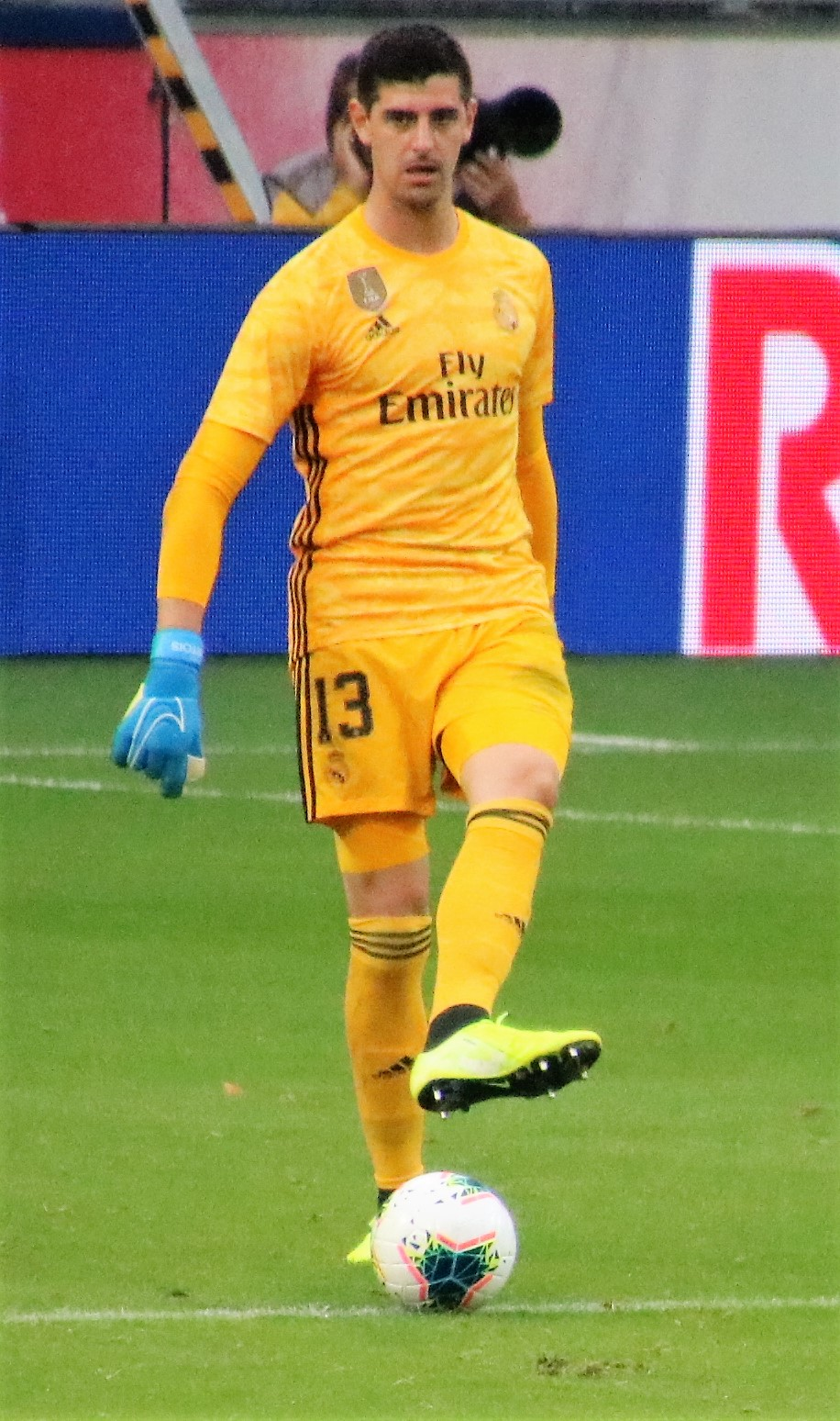 Preseason match